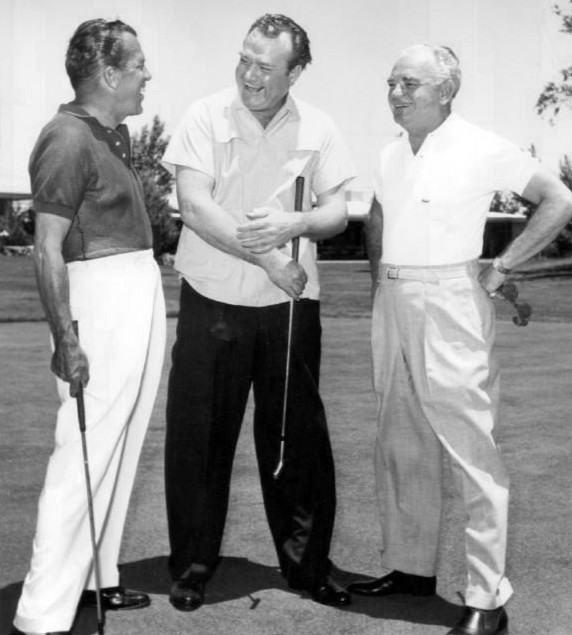 Photo of Ed Sullivan, Red Skelton and Wilbur Clark playing golf at the Desert Inn, Las Vegas. Clark was the original owner of the hotel; Sullivan and Skelton were both performing at it at the time the photo was taken.